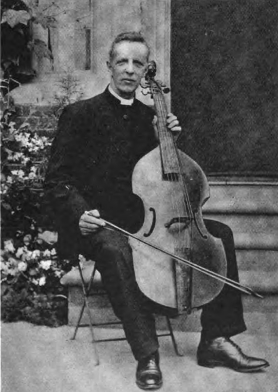 Francis William Galpin, photo by his wife, published in The Musical Times, 1 August 1906, page 529